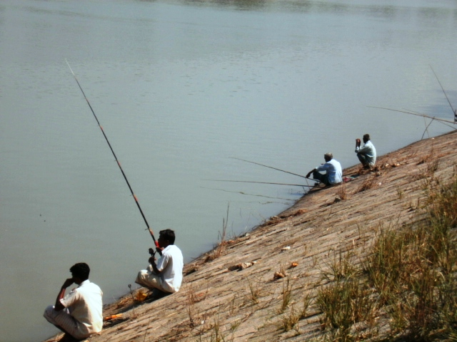 Angling at the riverside of Brahmaputra.